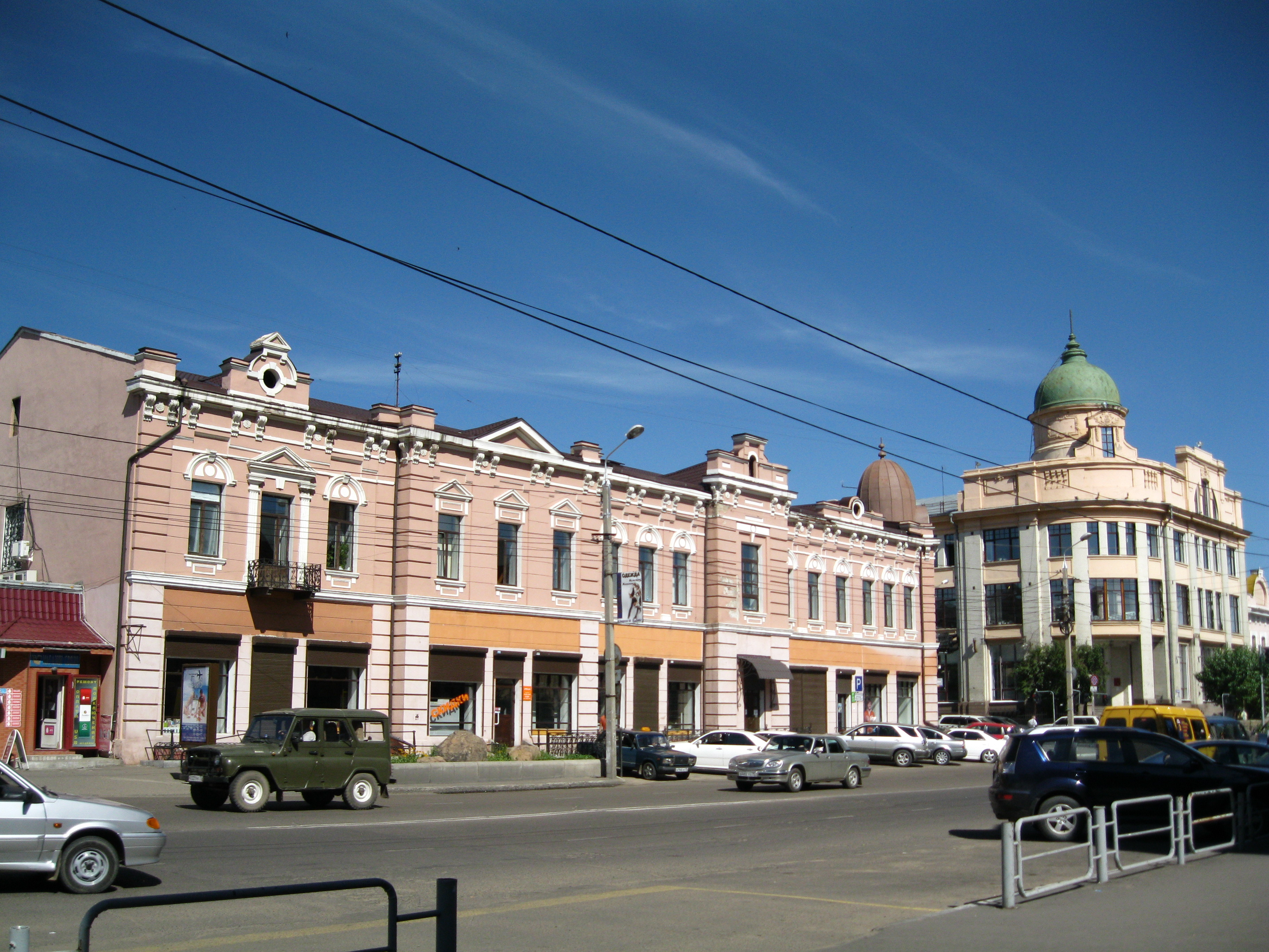 Amurskaya street in Chita, Russia